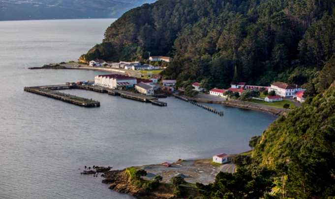 Photograph of Shelly Bay, Wellington, New Zealand.